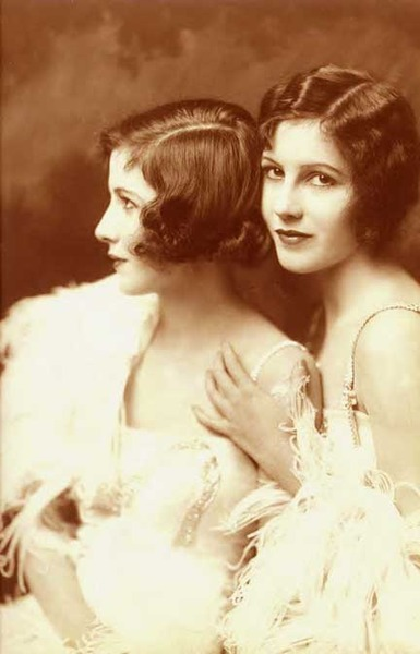 Fairbank Twins